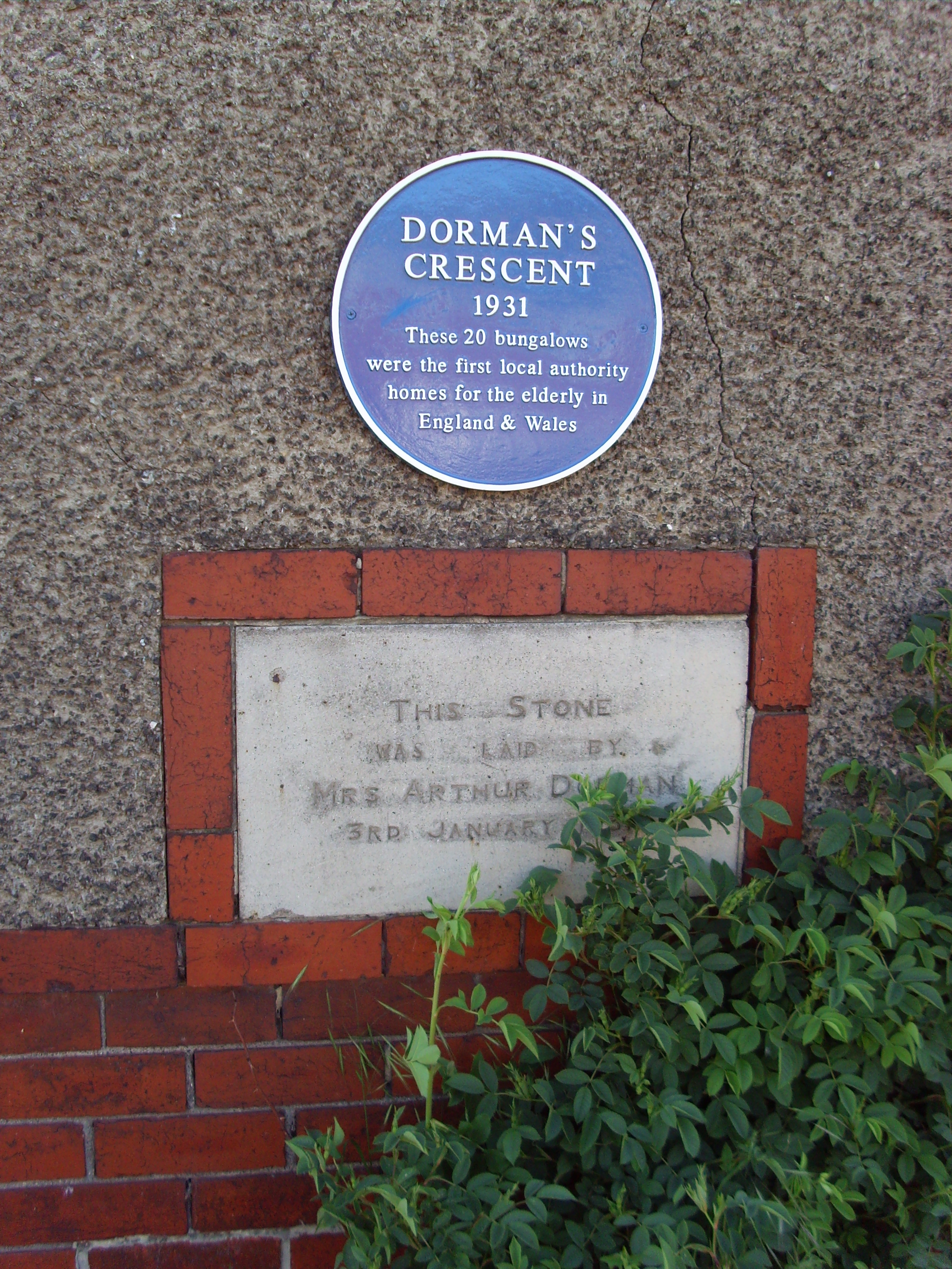 This stone was laid by Mrs Clara Arthur Dorman 3rd January 1931